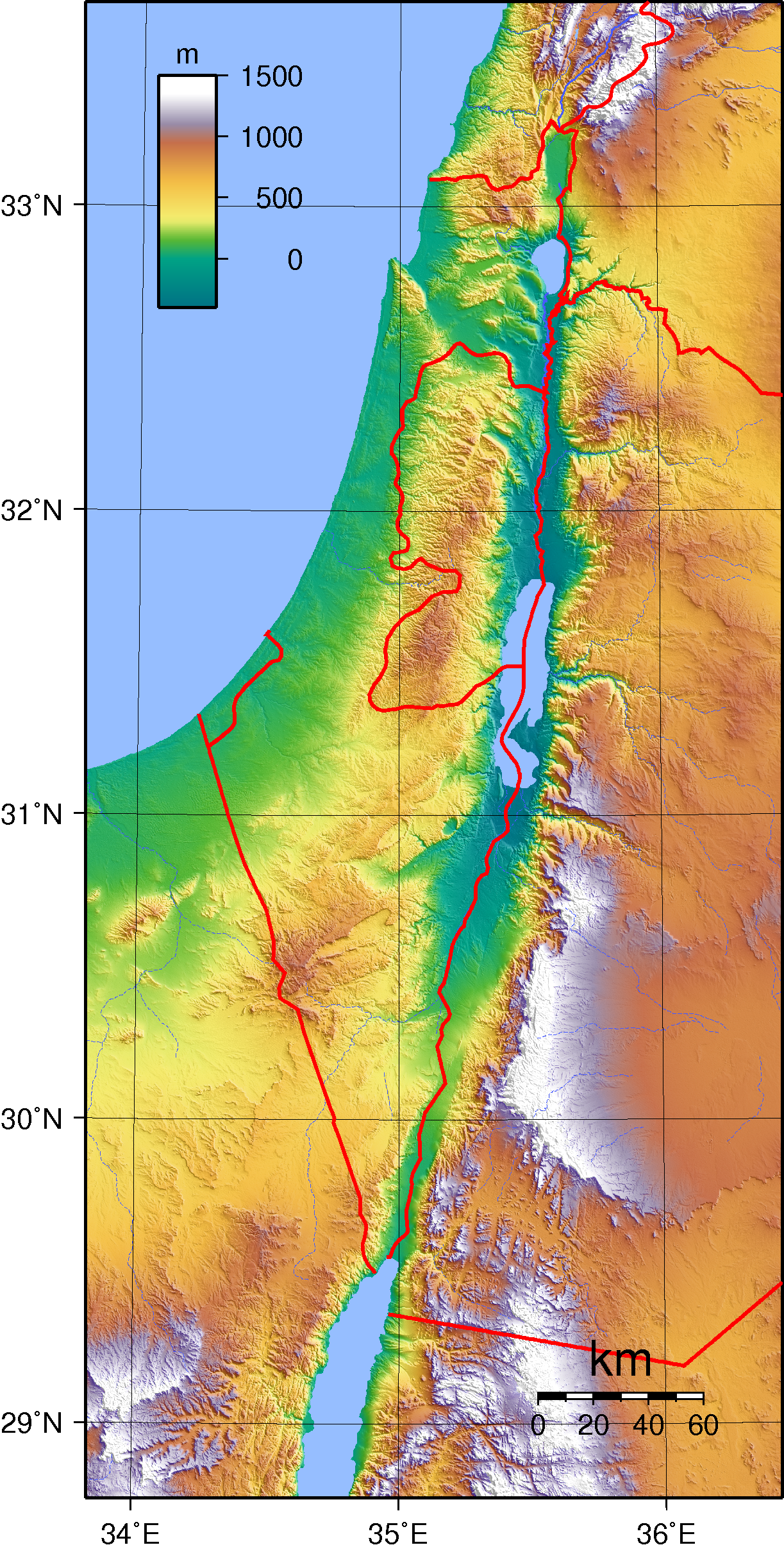 Topographic map of Israel. Created with GMT from SRTM data.